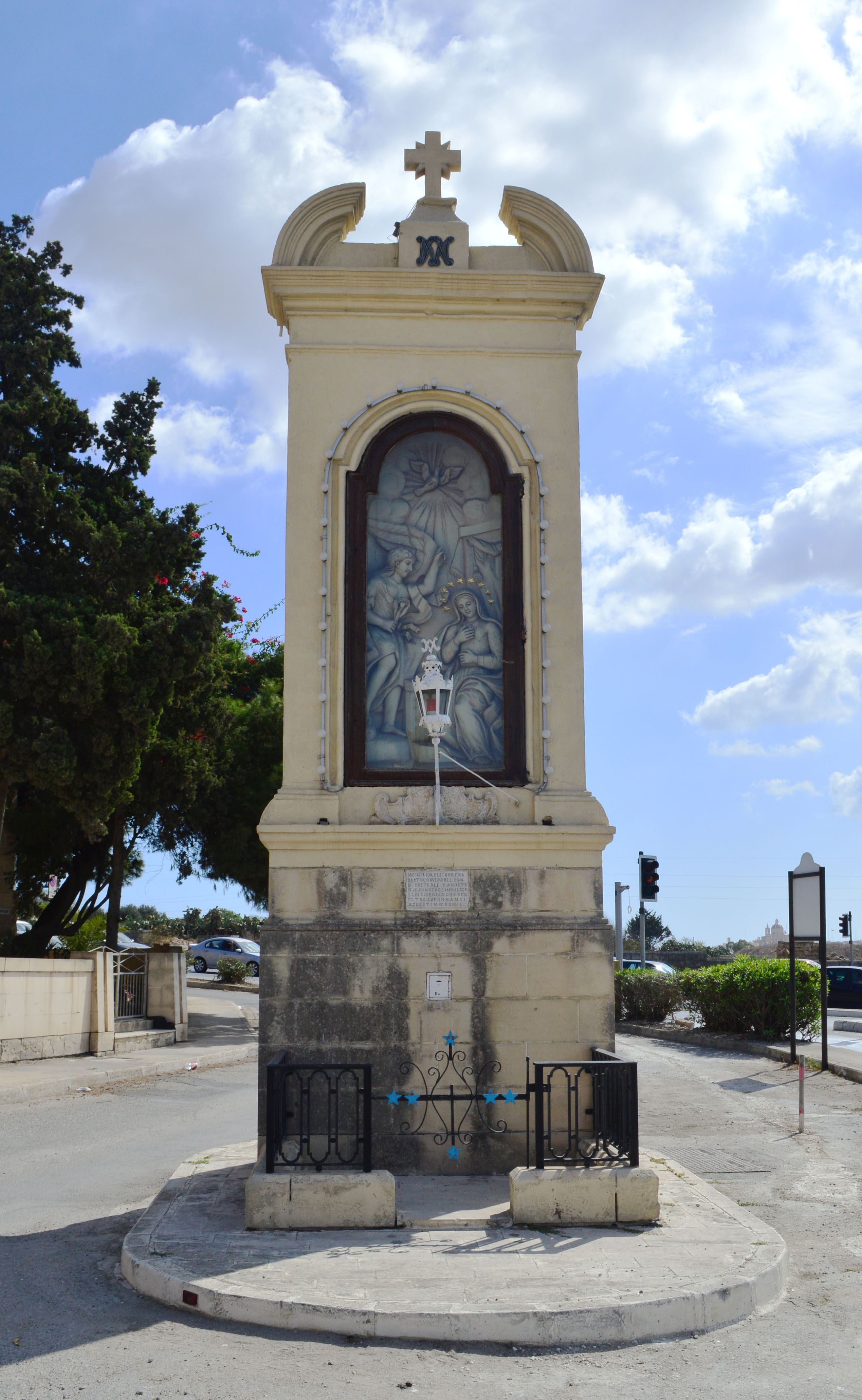 This media is about Maltese cultural property with inventory number 02032.